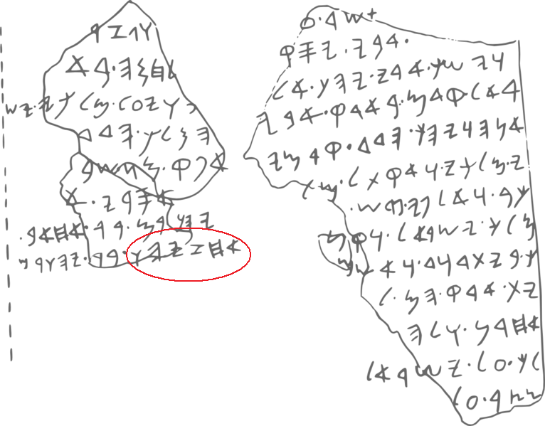 Ahaziah's name (AHZYHU) on Tel Dan stele